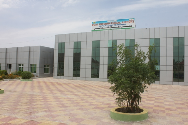 Departure terminal of Egal International Airport in Hargeisa, Somaliland